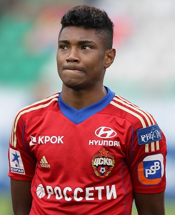 Vitinho